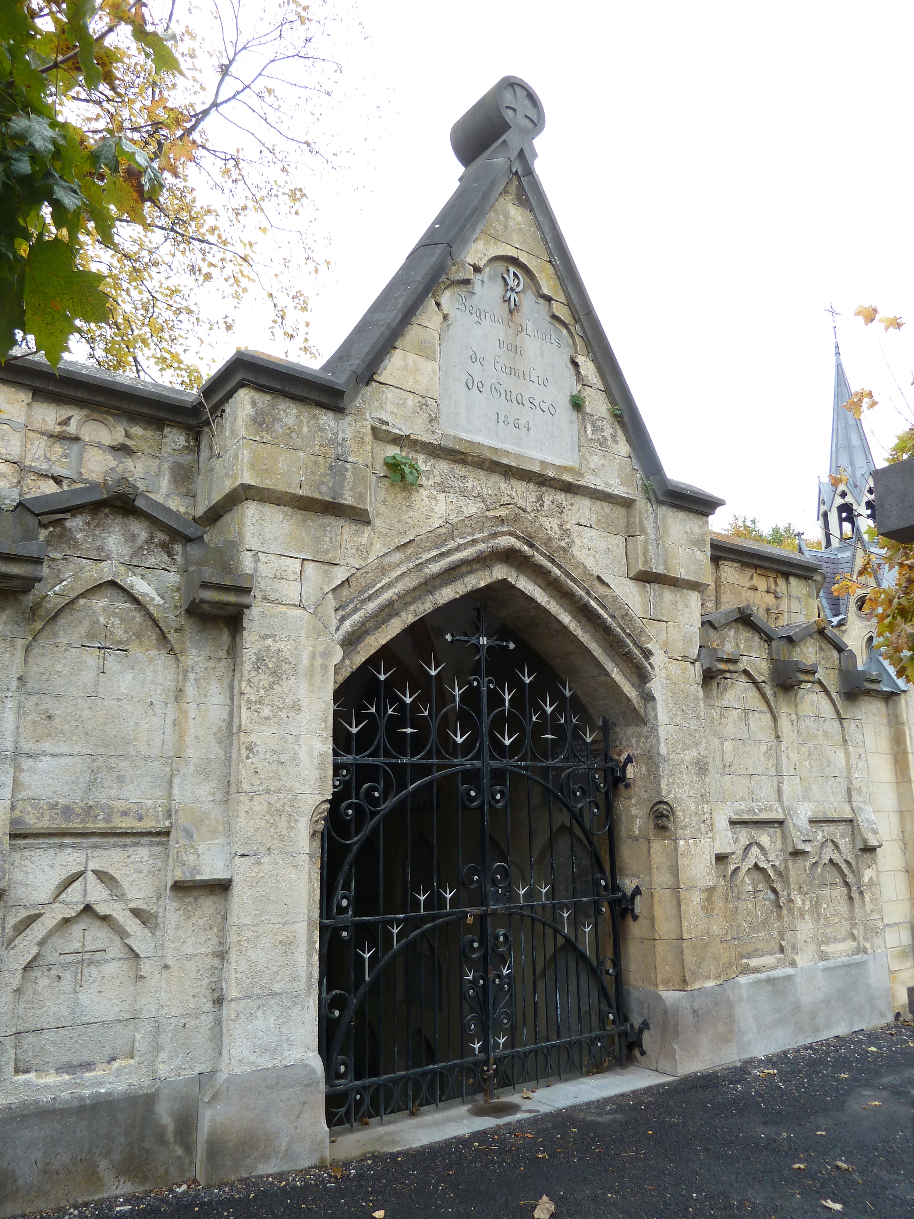 Familiegraf De Guasco, Valkenburg, Limburg, the Netherlands